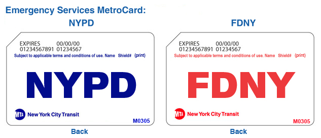 MTA Emergency Services MetroCards